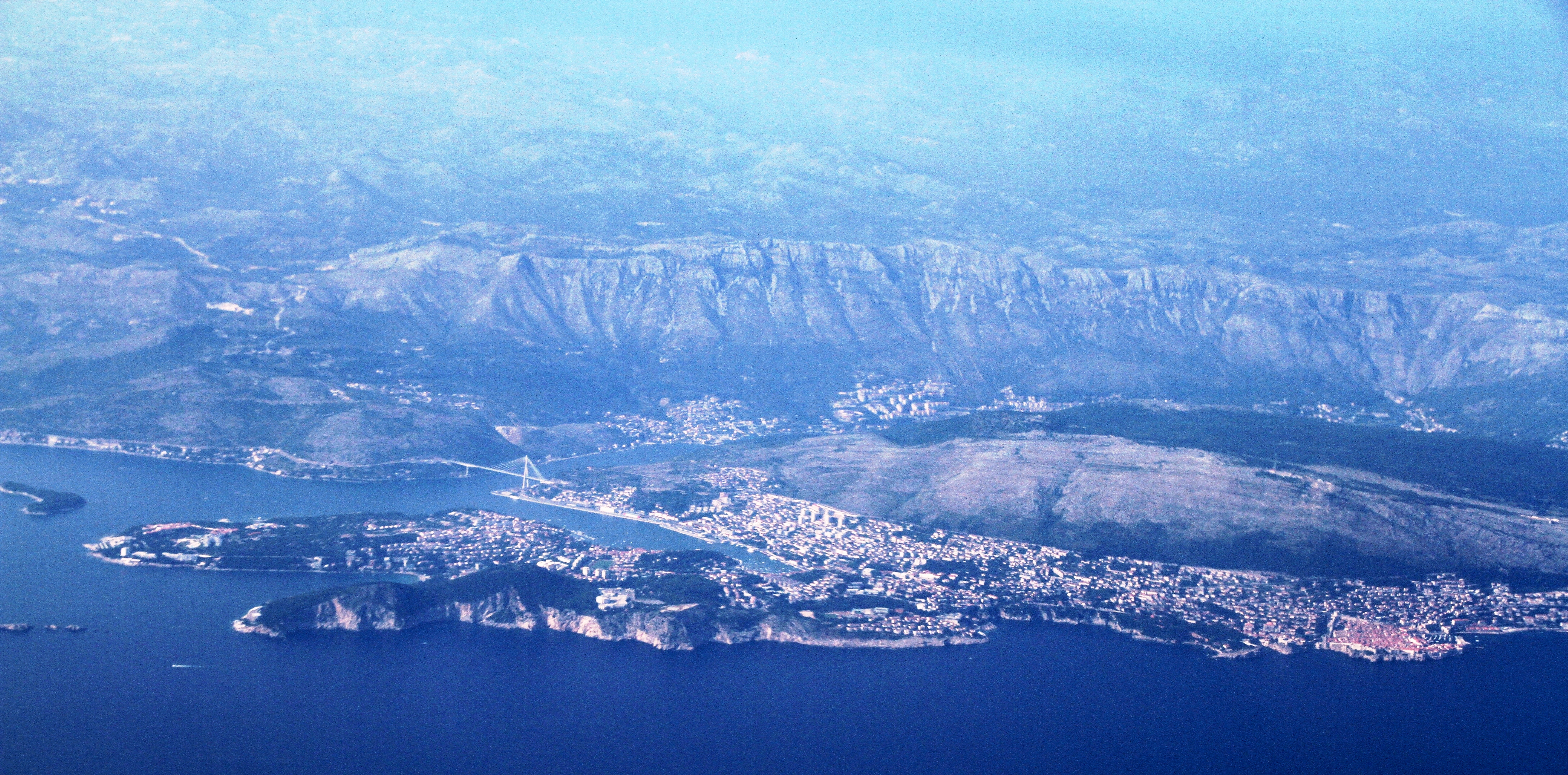 Aerial view of Dubrovnik from the southwest. Croatia (Dalmatia).